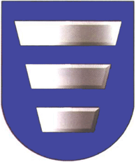 Coat_of_arms_of_Kopatkevichi